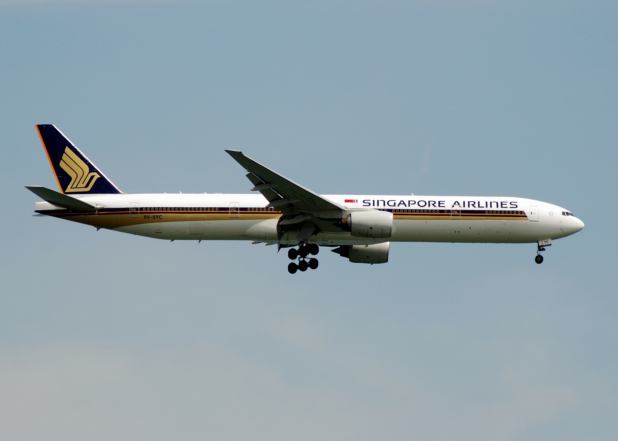 Singapore Airlines Boeing 777-300 (9V-SYC) on its final approach to Runway 20C at Singapore Changi Airport.